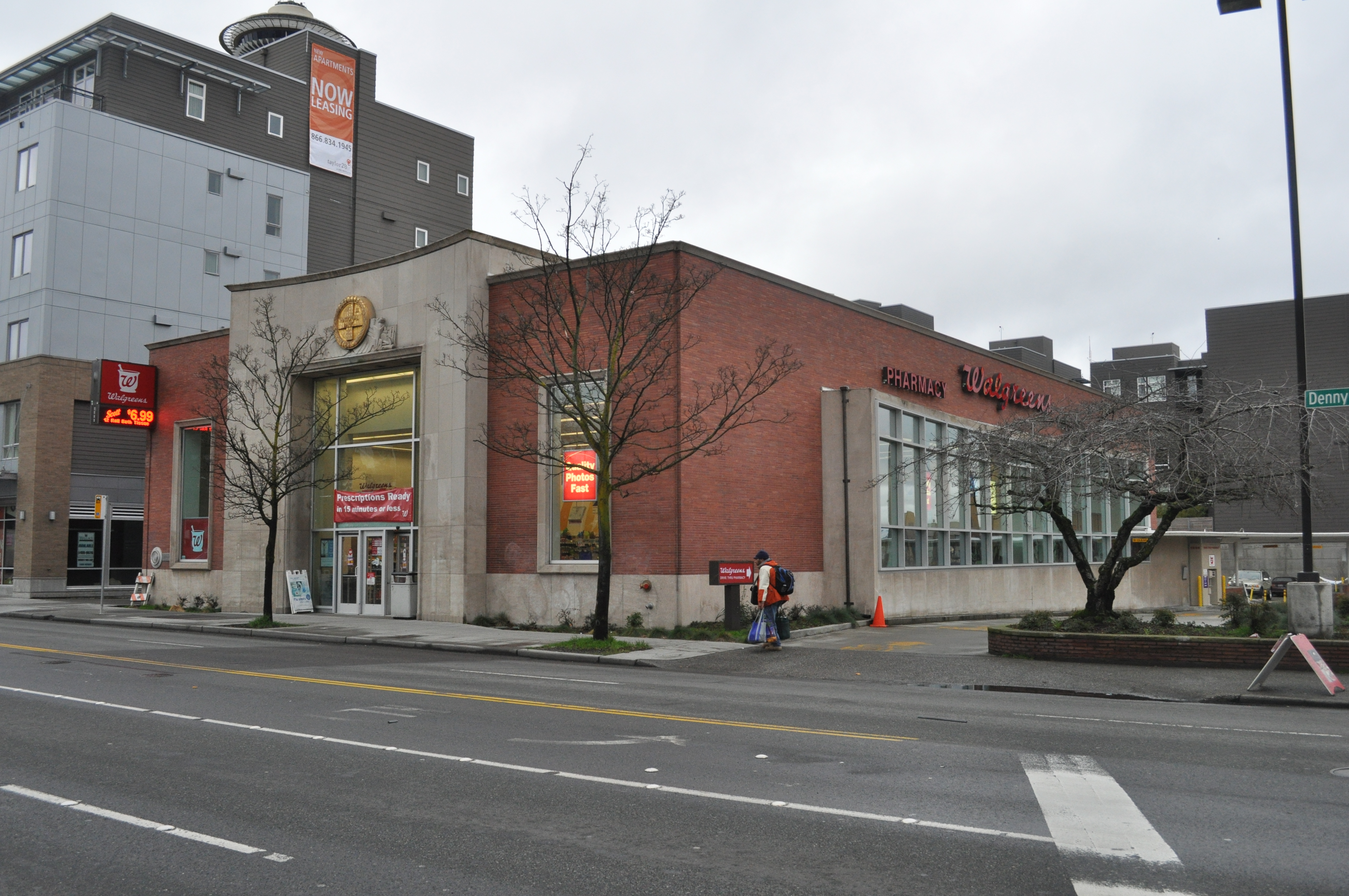 566 Denny Way, Seattle, Washington, USA. A former SeaFirst Bank (Seattle First National Bank), later Bank of America, now a Walgreens.